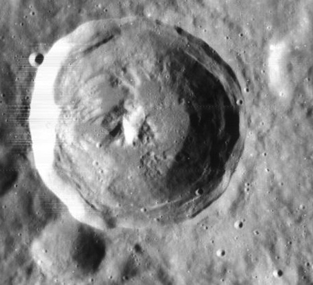 Herschel crater LO-IV image 4108_h3